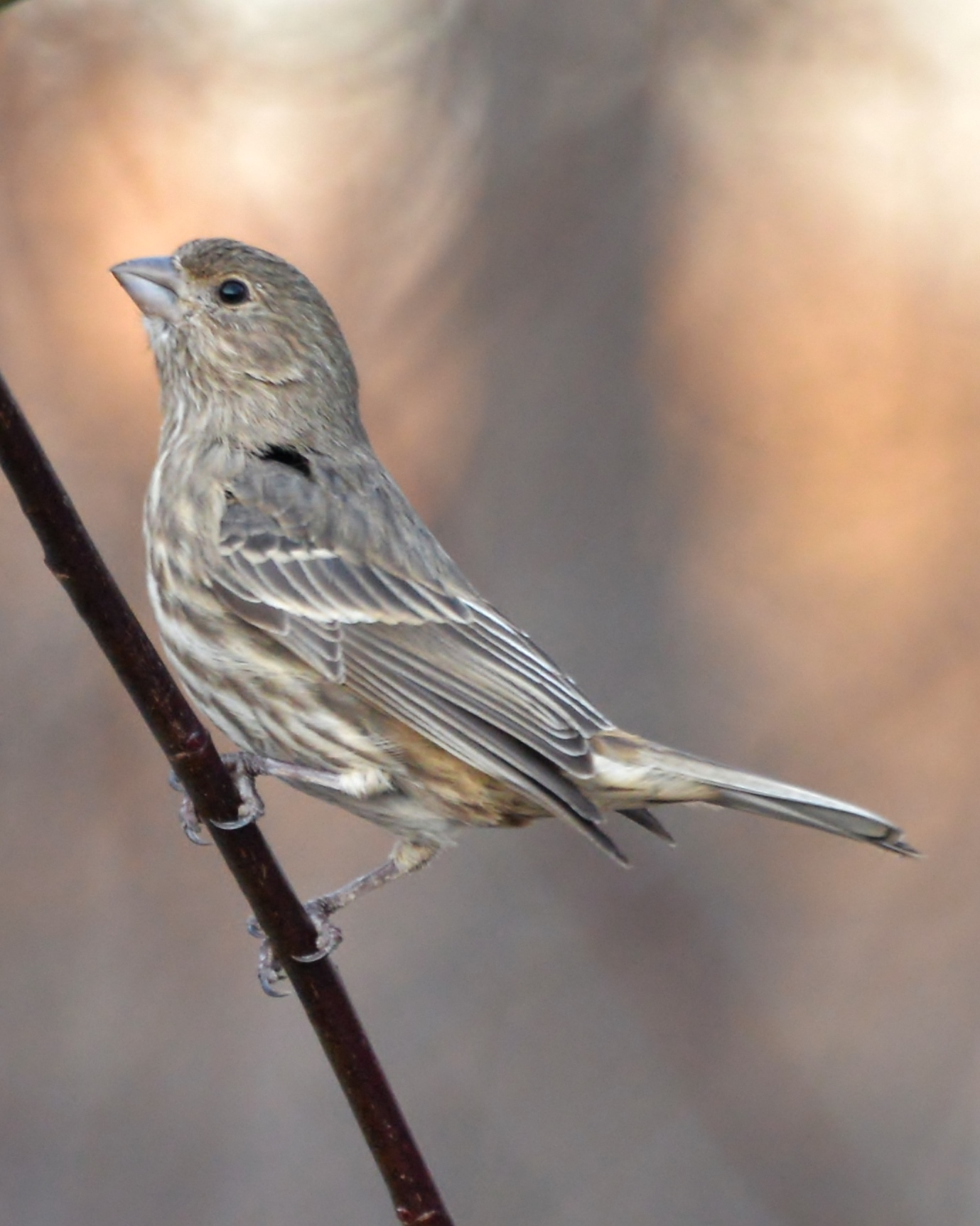 Female House Finch (Haemorhous mexicanus) in Lambton Woods Park, Toronto